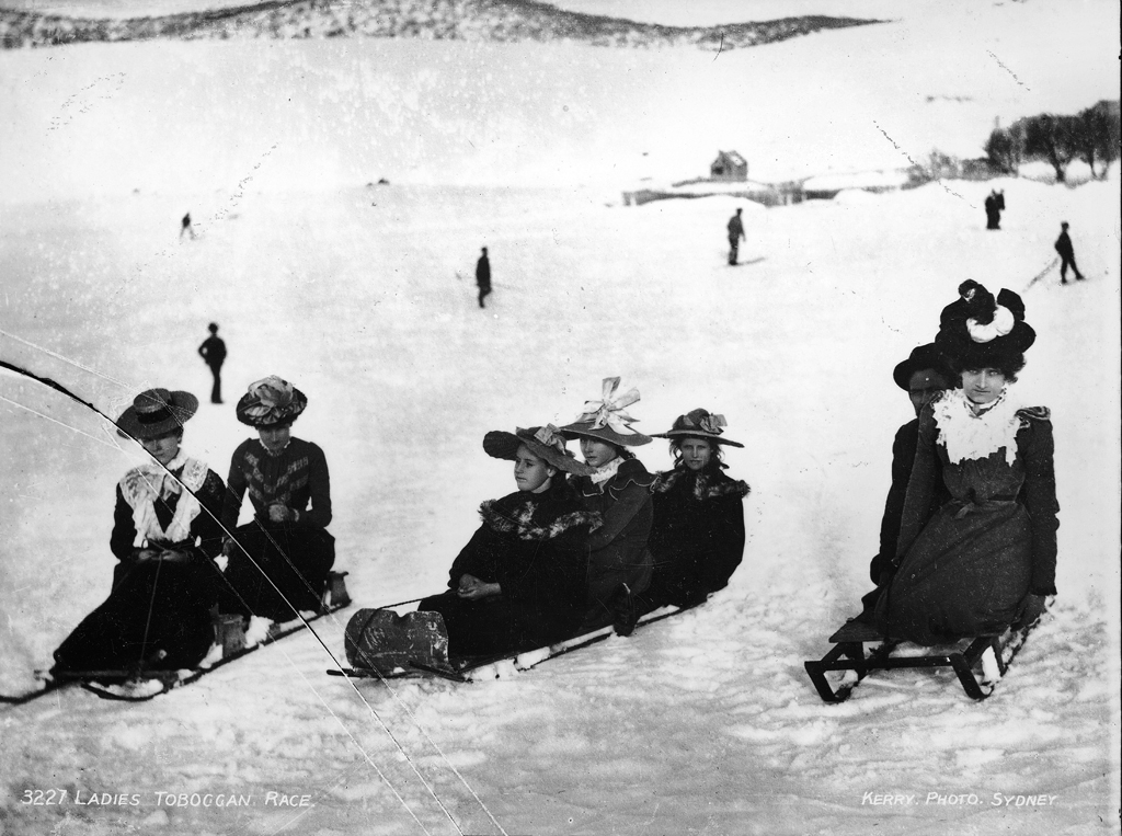 Ladies at Kiandra, NSW, tobogganing.